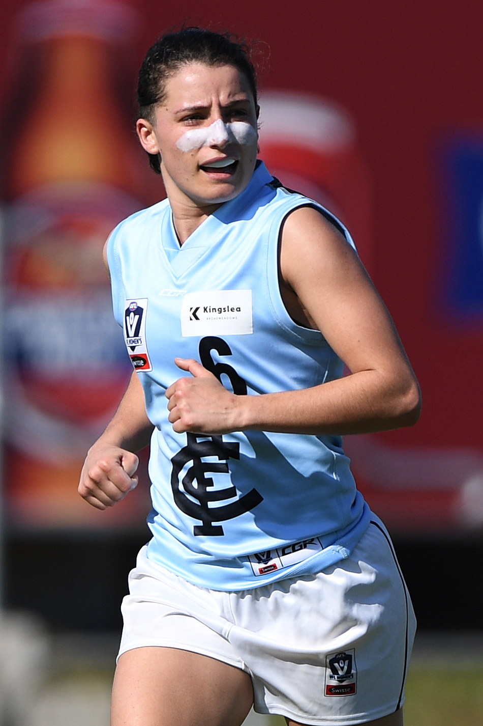 Gabriella Pound of Carlton during the 2019 VFLW round 9 match between NT Thunder and Carlton at TIO Stadium on Saturday, 6 July 2019 in Darwin, Northern Territory.